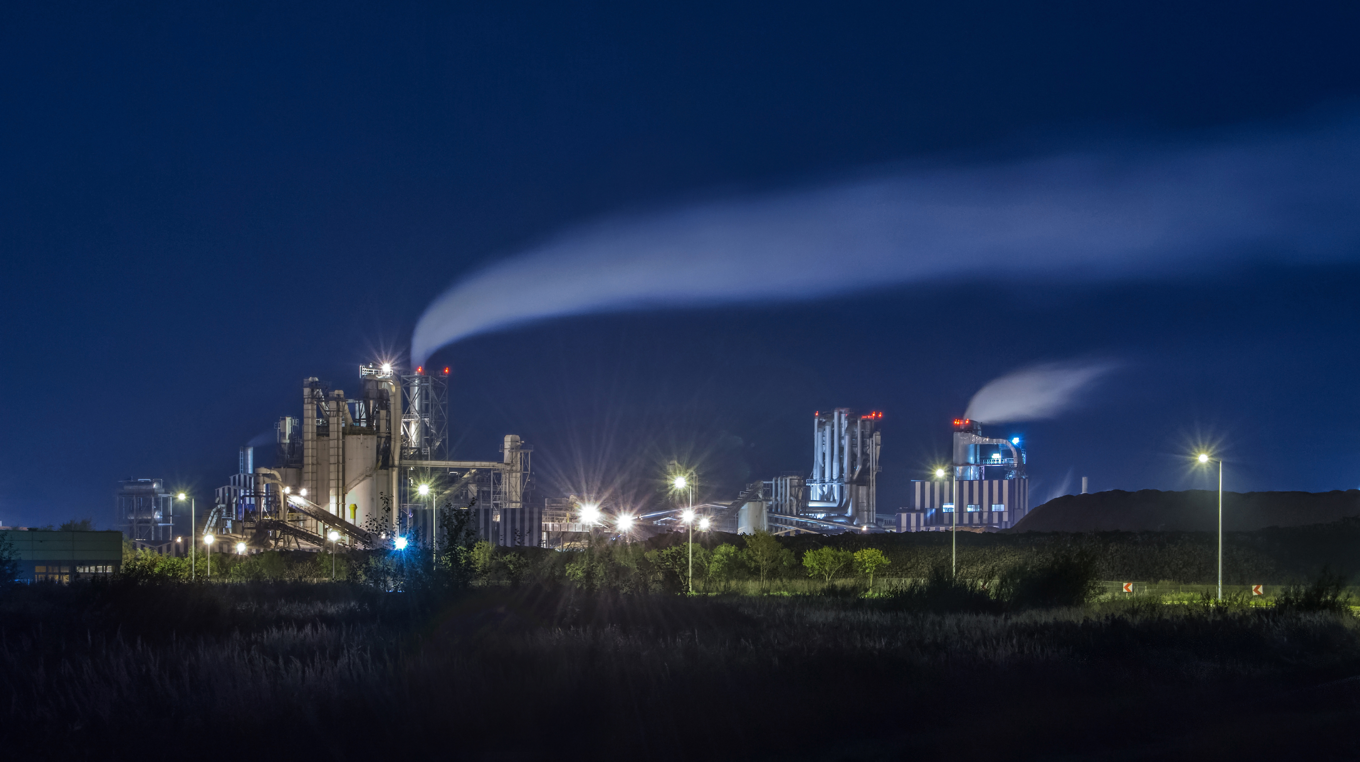 Kronospan plant in Mielec